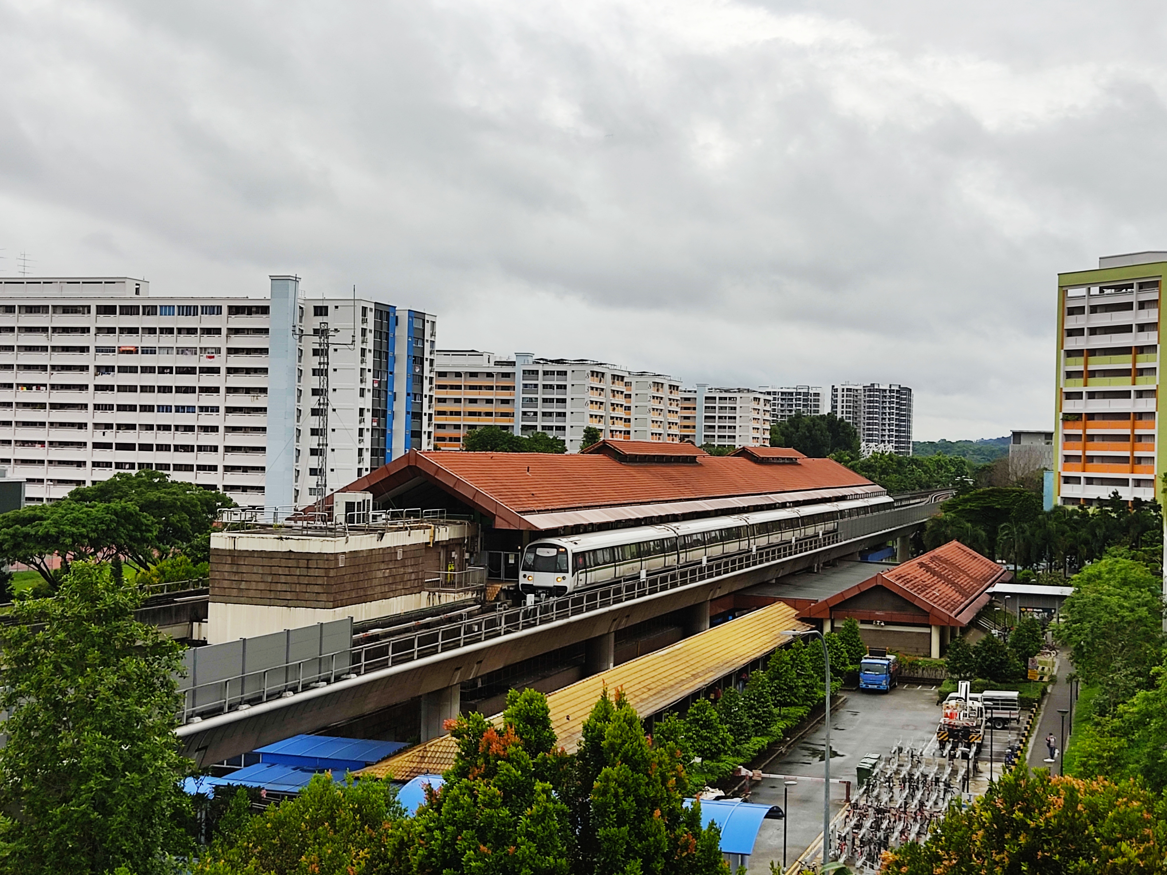 Khatib MRT Exterior